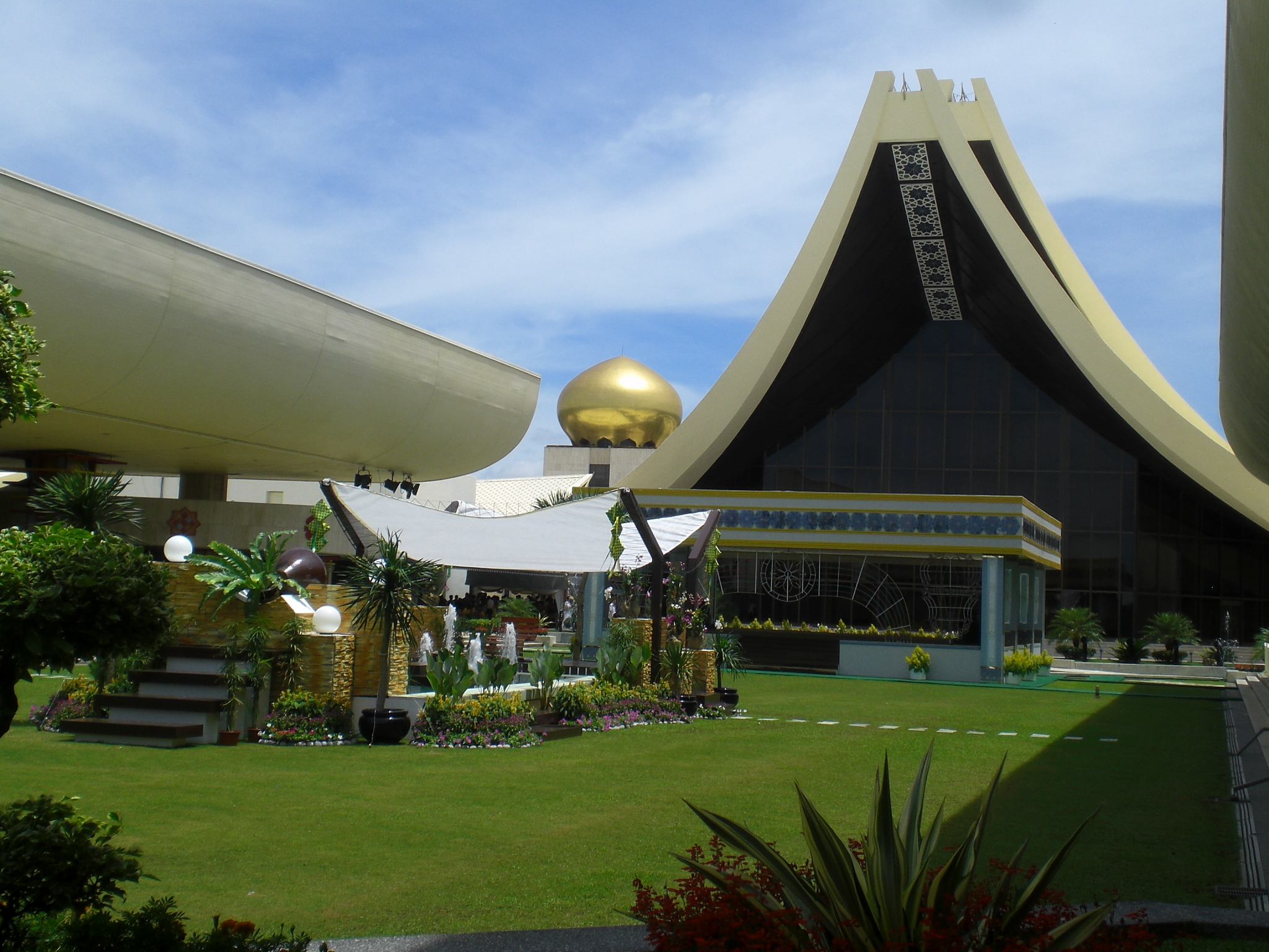 Istana Nurul Iman during Open House 2008